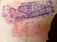 Trafaret by Irevani